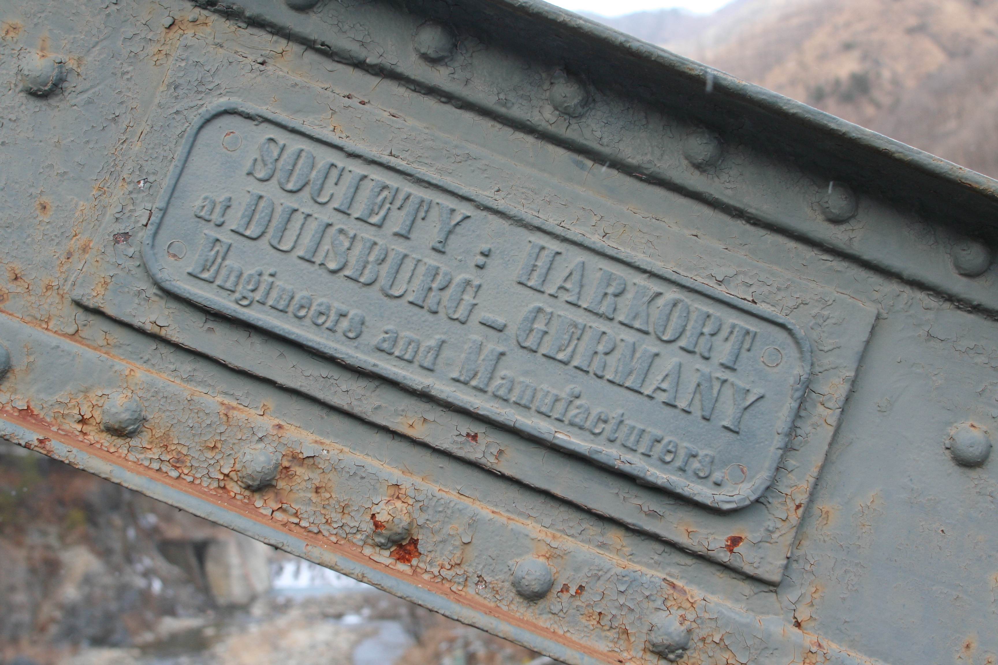 The maker`s plate of Harkort on the Furukawa bridge.